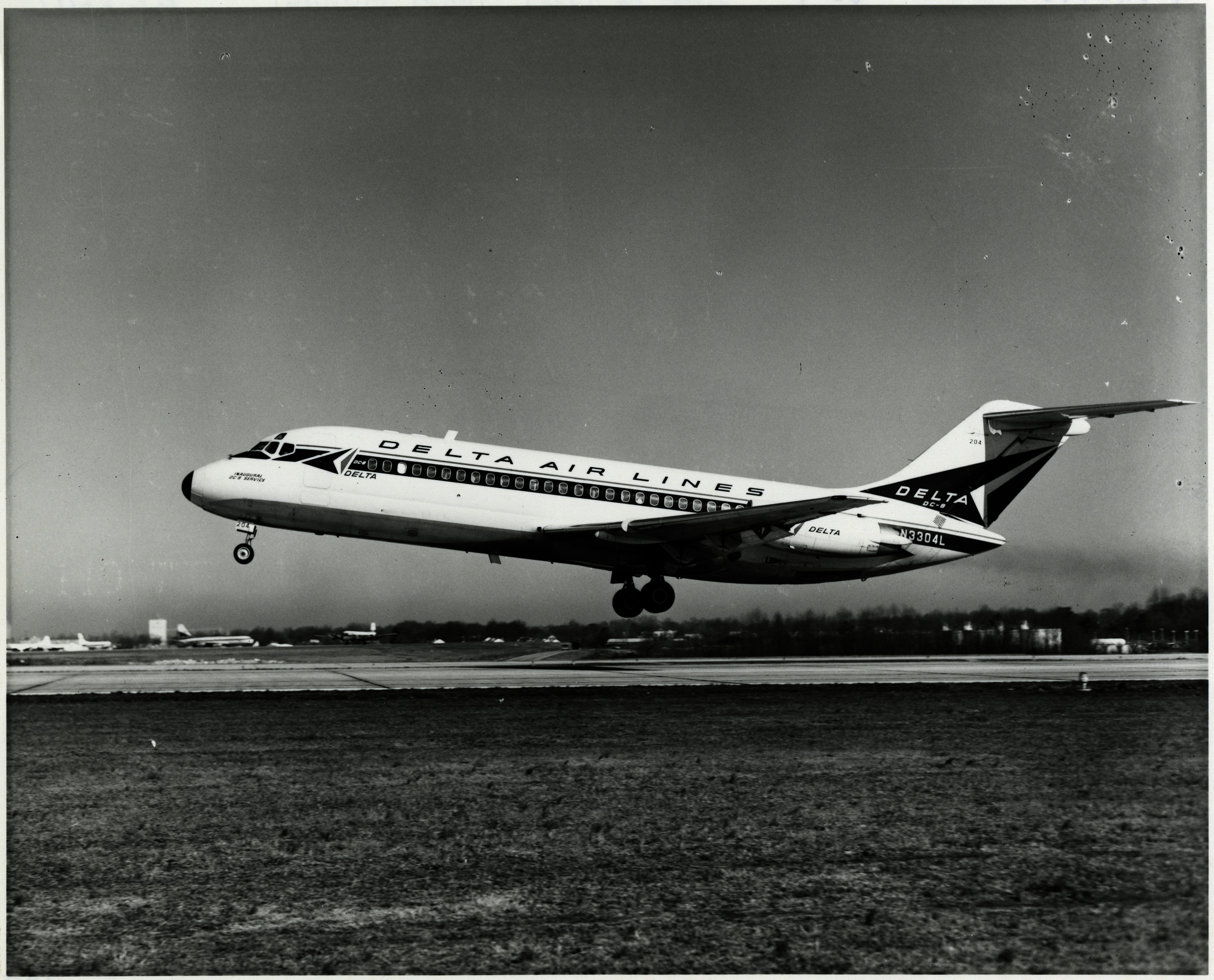 Left side view of Delta Air Lines Douglas DC-9-14 (r/n N3304L) taking off, circa 1965. Nose of aircraft reads "Inaugural DC-9 Service."